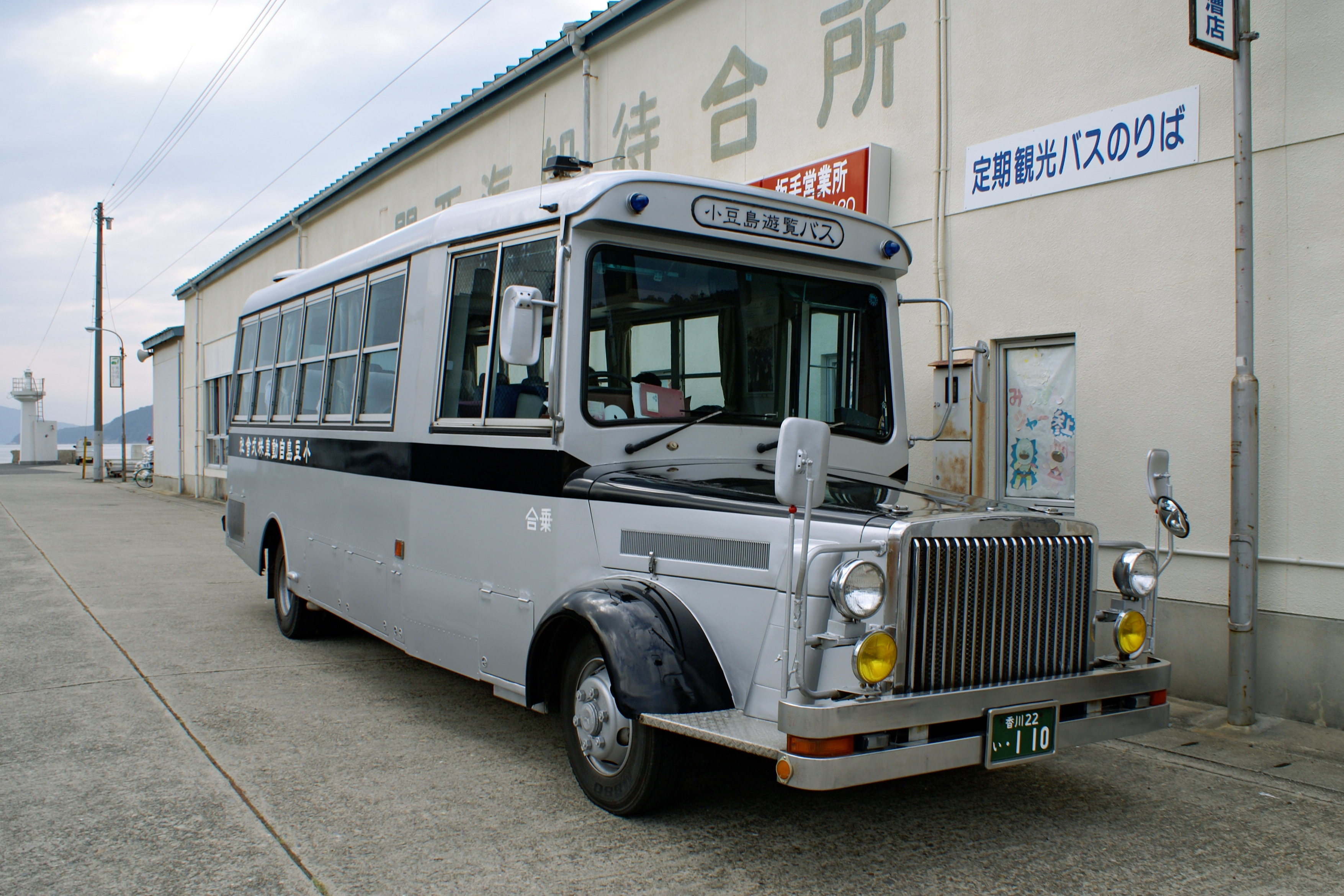 Shodoshima Bus at Sakate port in Shodoshima island Kagawa Prefecture, Japan)